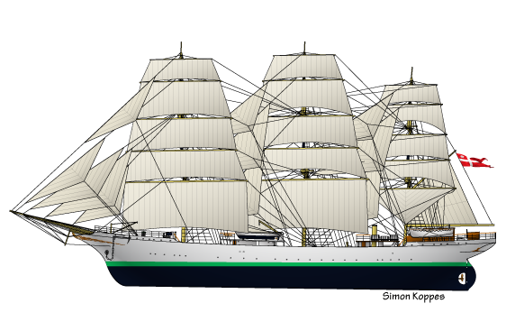 Drawing of the danish sailing ship Danmark